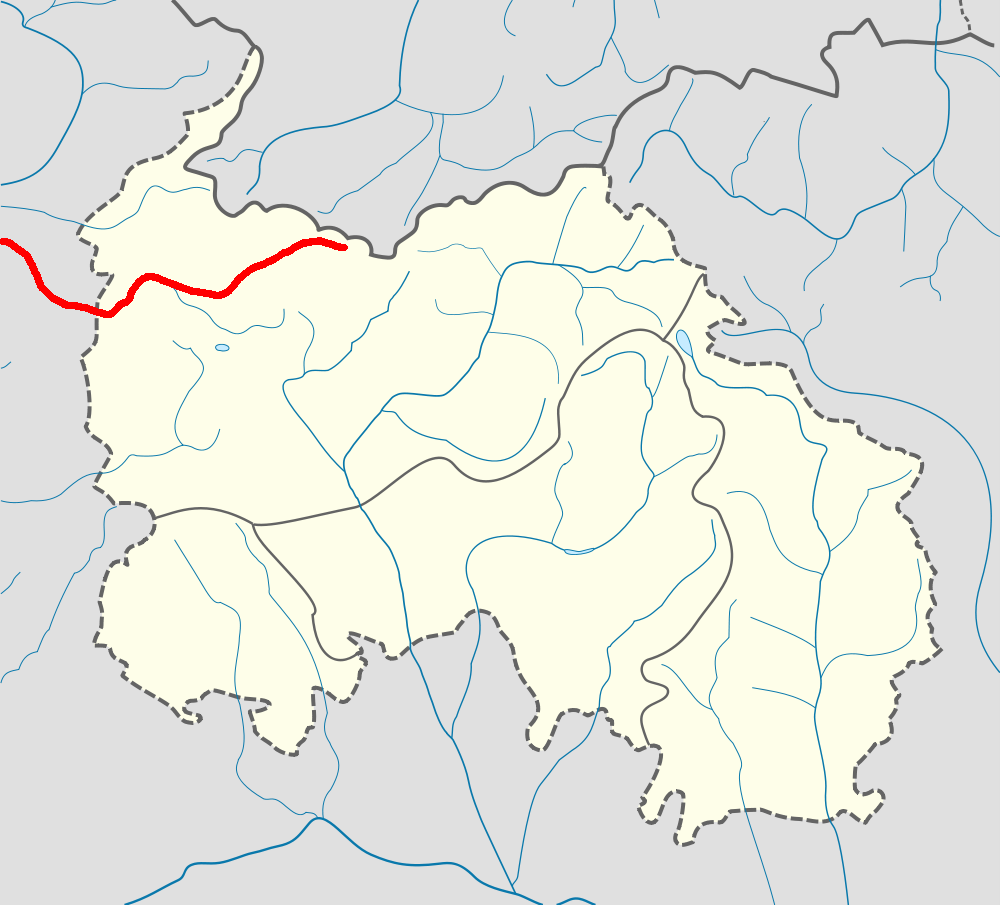 Dzhodzhora